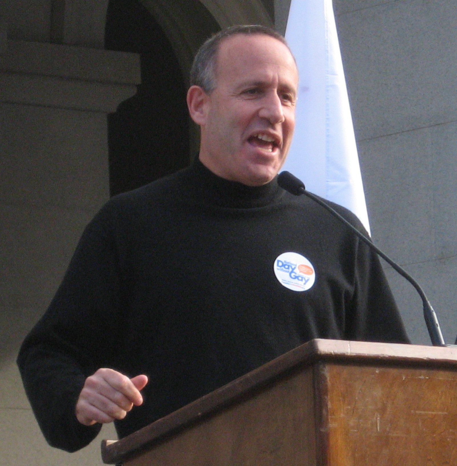 California State Senator Darrell Steinberg